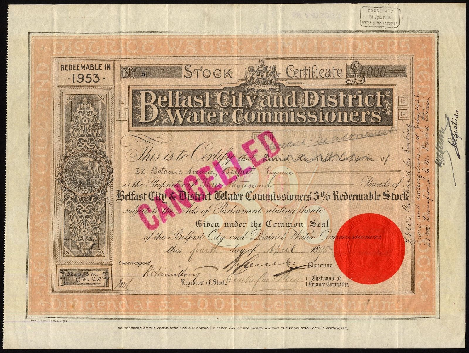 Belfast City & District Water Commissioners, 3% redeemable stock, 1895